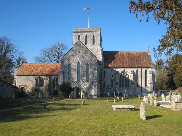 Church of St. Mary and St. Melor, Amesbury Dating from the C12th, the church was much altered and extended over the years and in 1852-3 was restored by one William Butterfield, who intended to replace all features of the church later than C1400. This included the removal of nearly all of the furnishings. Some of these were returned when the church was structurally restored in 1907.